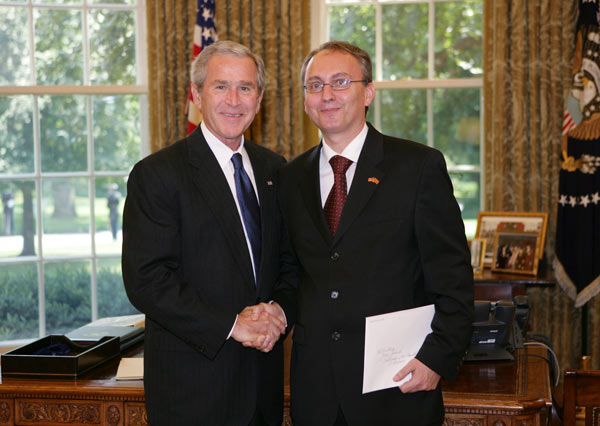 President George W. Bush meets with Ambassador Zoran Jolevski of the Republic of Macedonia, Wednesday, July 25, 2007, in the Oval Office at the White House, during the credentials ceremony for newly appointed ambassadors to Washington, DC. White House photo by Eric Draper.